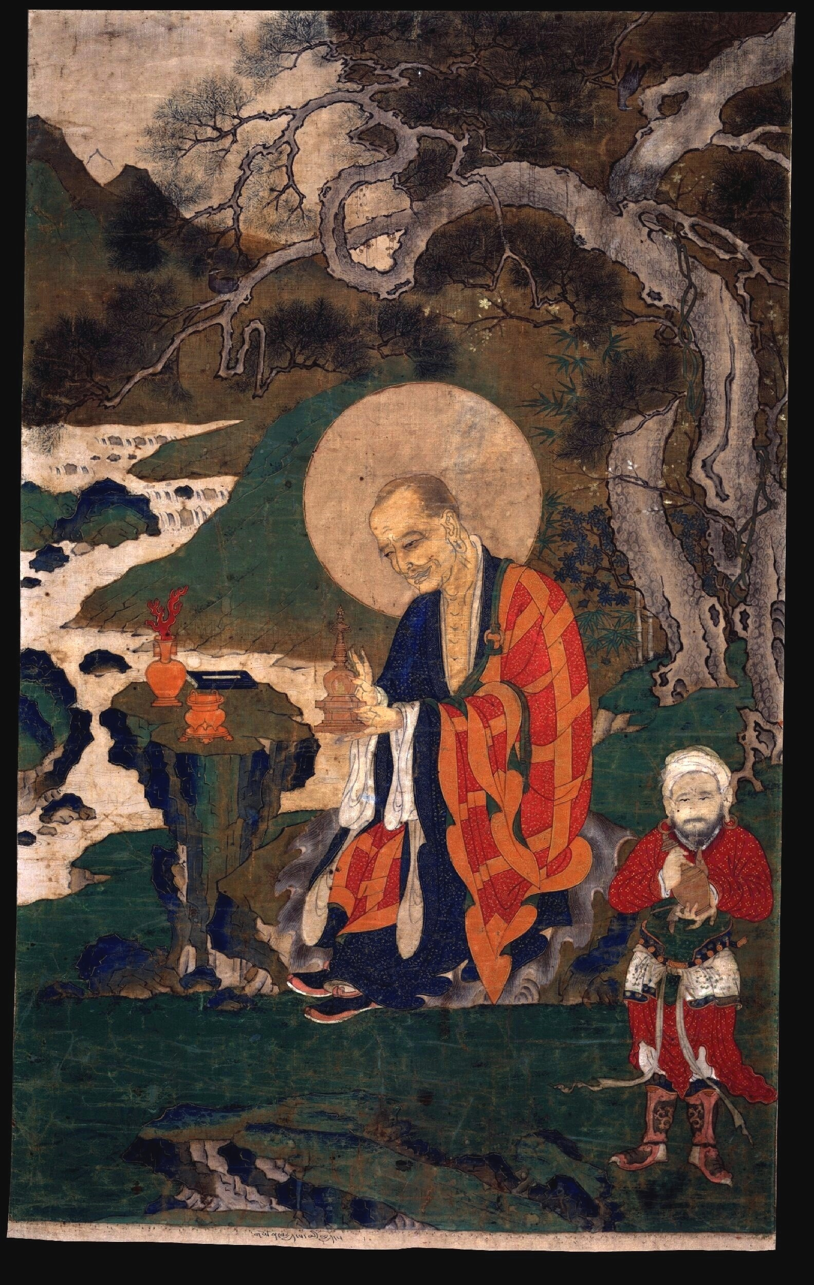 Arhat (Buddhist Elder), Tibet. 16 Elders Abheda, 16th century, Rubin Museum of Art. Pigments on cloth, 32 x 20 in.